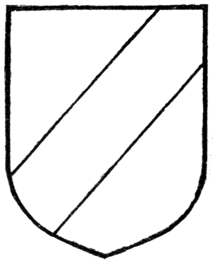 Fig. 82.—Bend sinister.